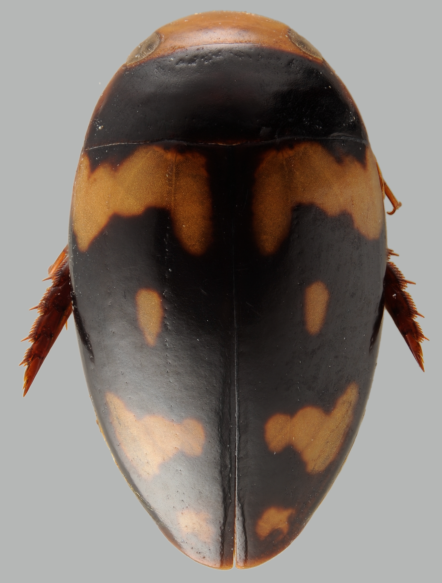 Habitus dorsal of Philaccolilus mas